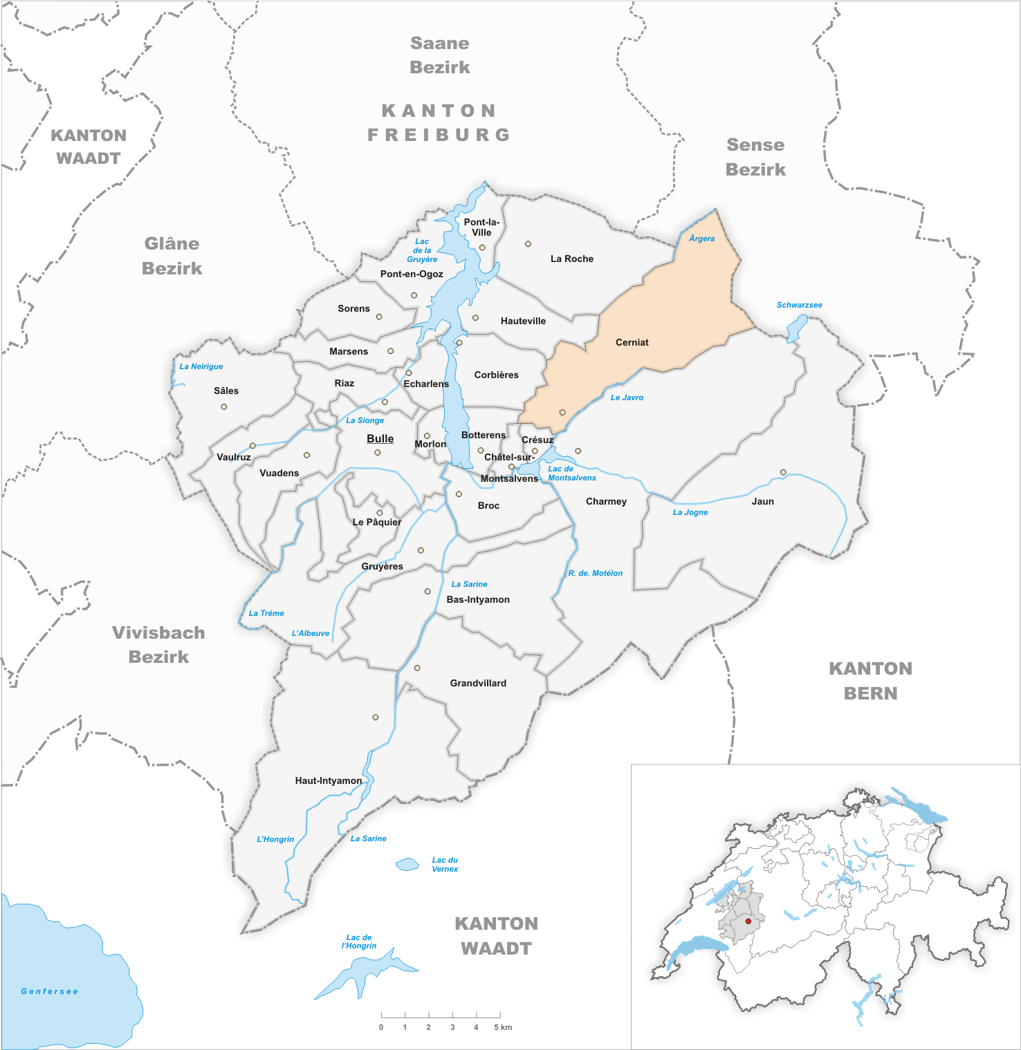 Municipality Cerniat